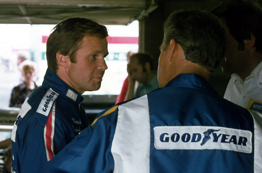 Mark Donohue JPGP S 75